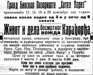 A movie advertisement for the 1911 film Karađorđe.